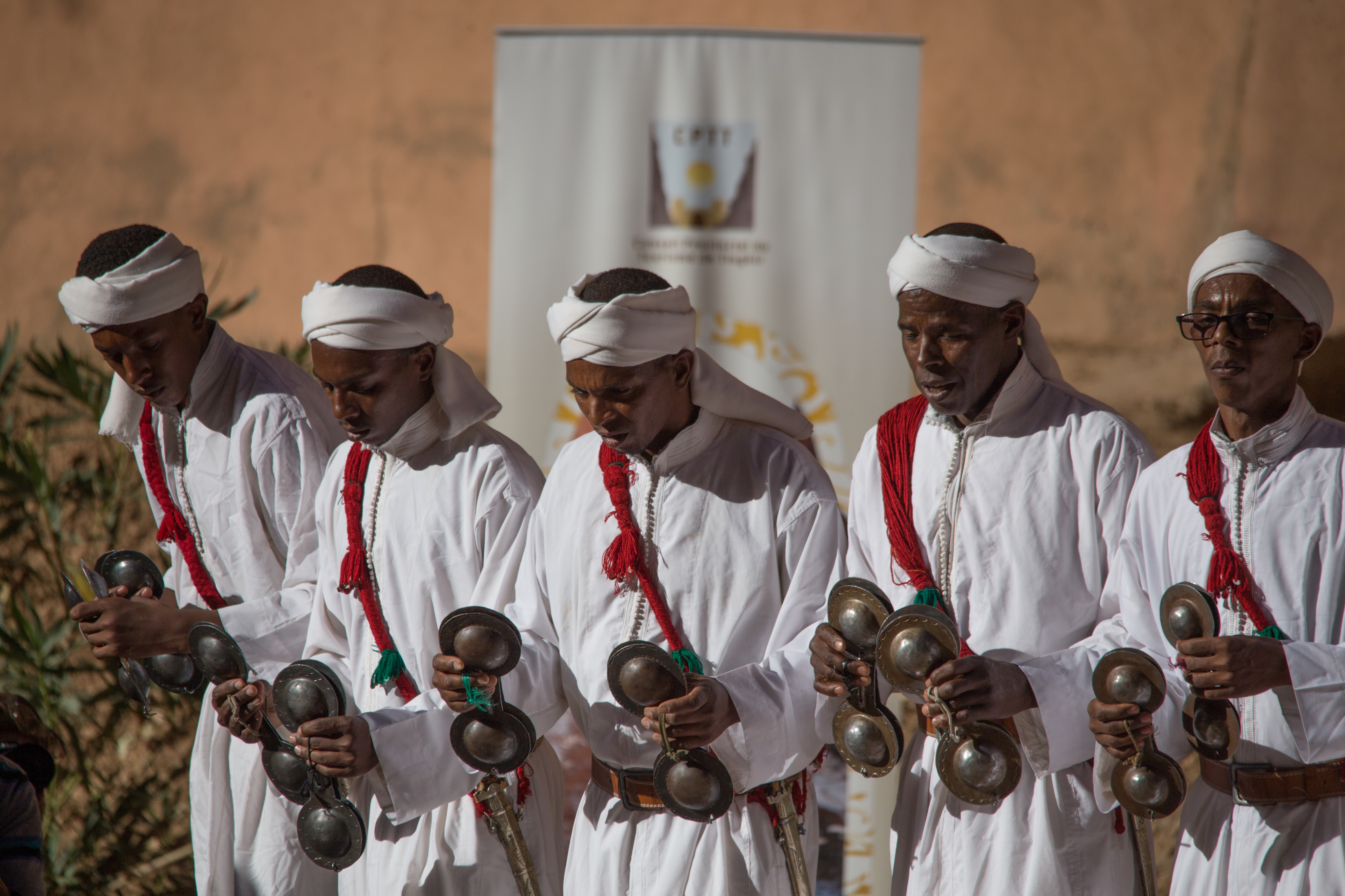 The sound of the south - Tinghir Morocco by Brahim FARAJI This photo has been taken in the country: Morocco